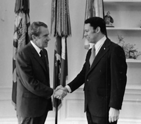 President Nixon shakes hands individually with White House Fellow Colin Powell. 3/9/1973